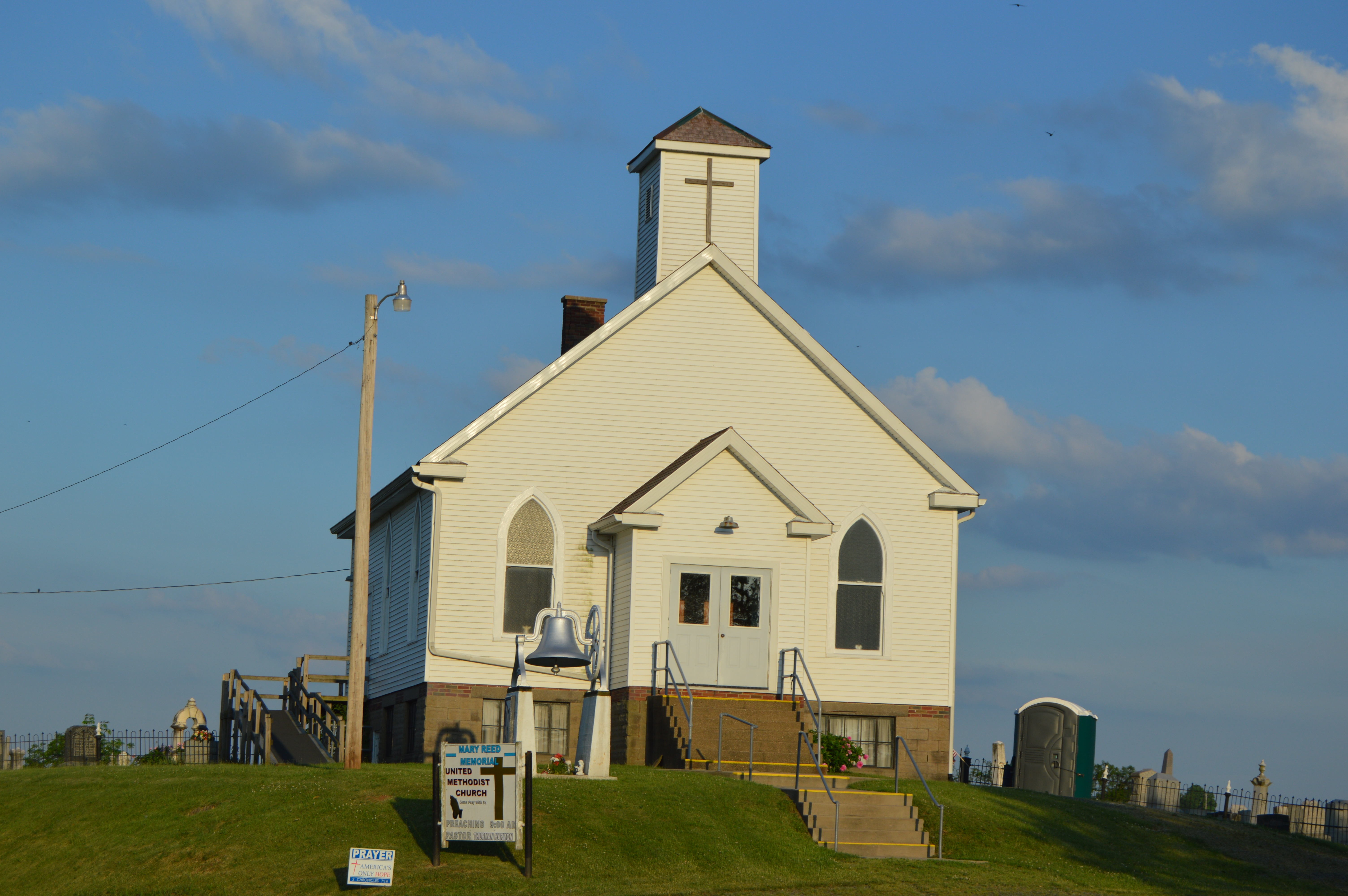 Front of the Mary Reed Memorial Methodist Church in Crooked Tree, Ohio, United States, located along State Route 339 at the Township Road 10 intersection.